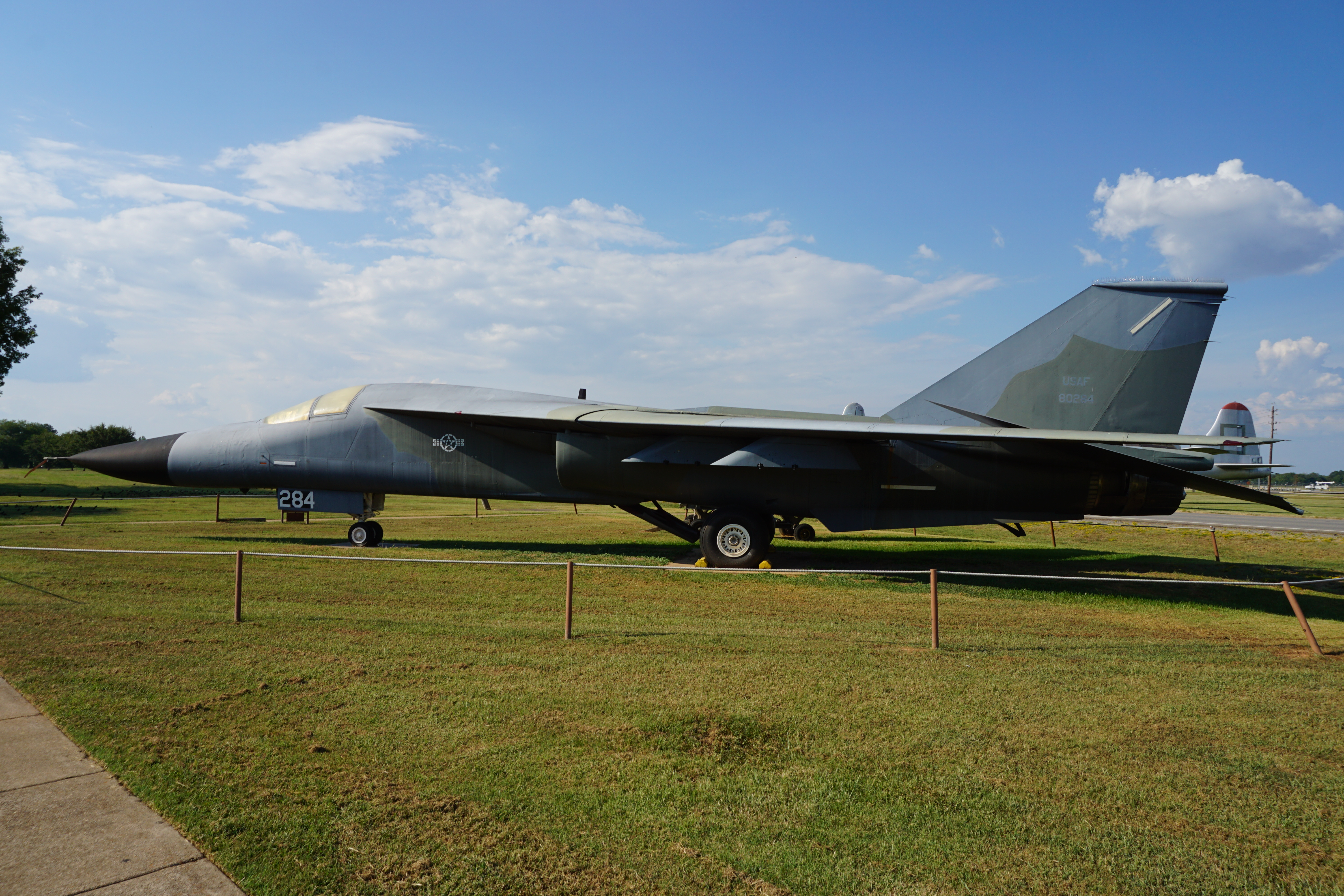 A General Dynamics FB-111A Aardvark on display at the Barksdale Global Power Museum at Barksdale Air Force Base near Bossier City, Louisiana (United States).